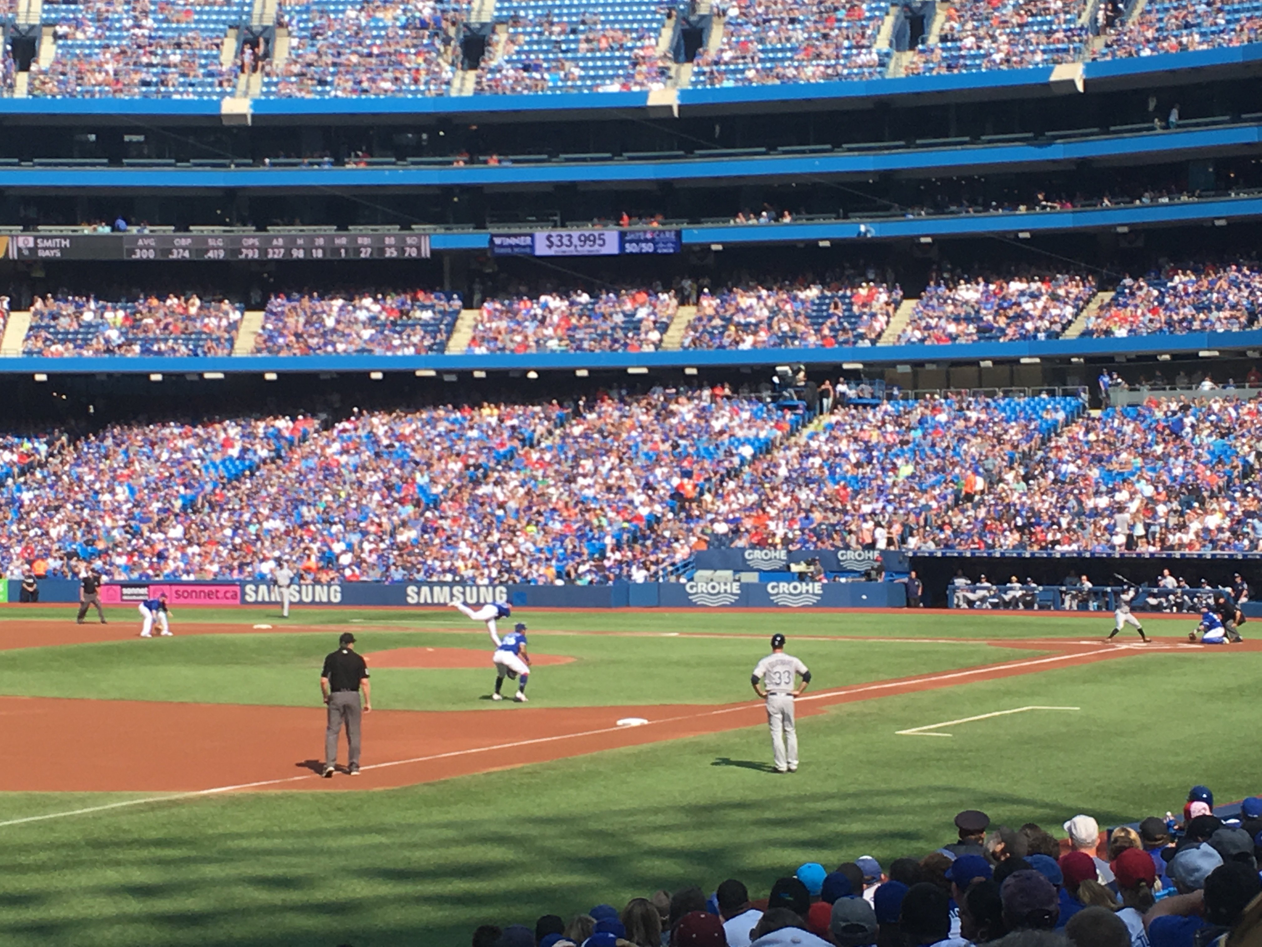 Sam Gaviglio pitching to Mallex Smith in the first inning of the Toronto-Tampa game, August 11, 2018